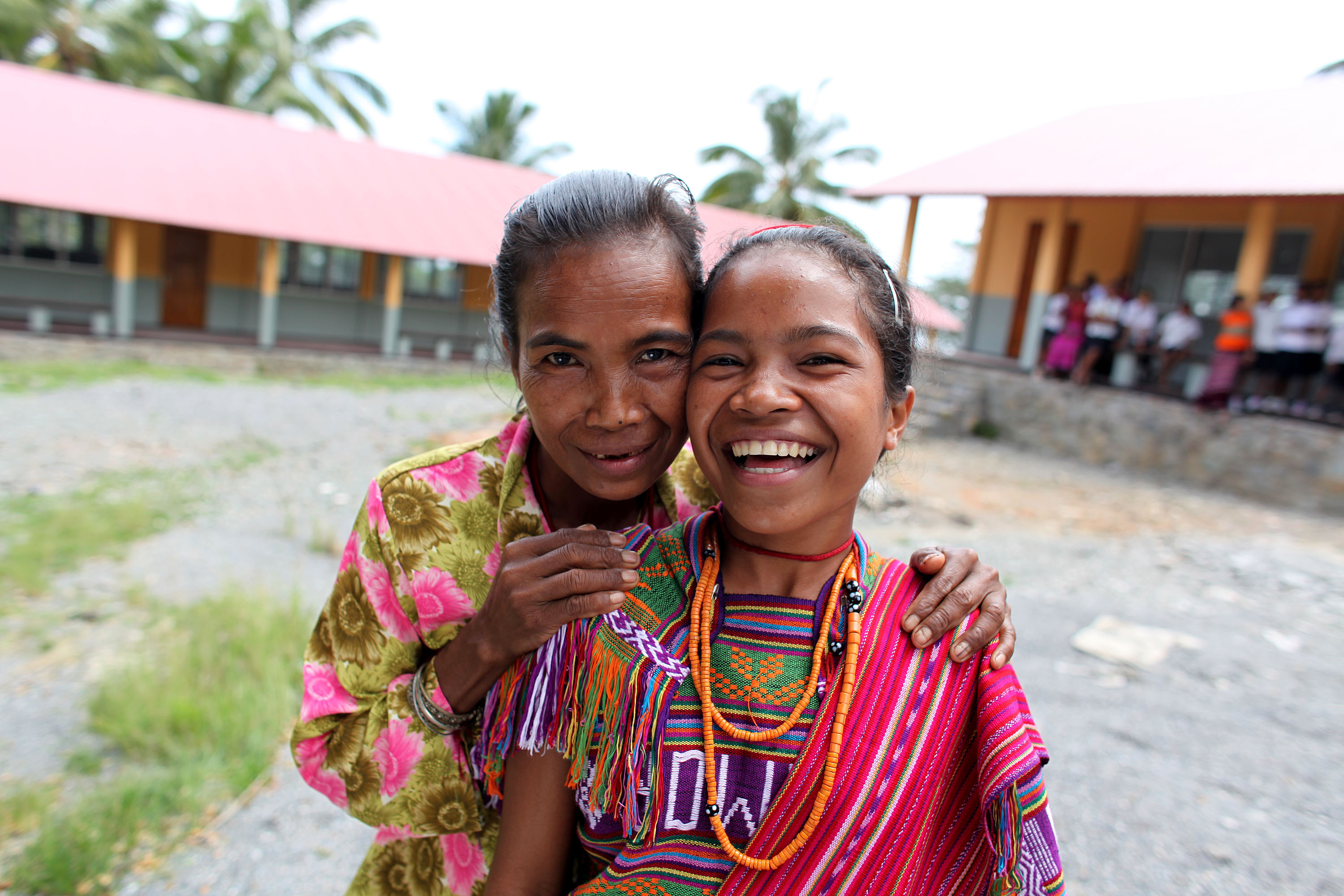 Fidelia Soares and her 12 year old daughter Domingas are involved in CARE's Young Women Young Nation education project in Liquica, Timor-Leste. The project encourages parents to send their girls to school, and supports girls to stay there.